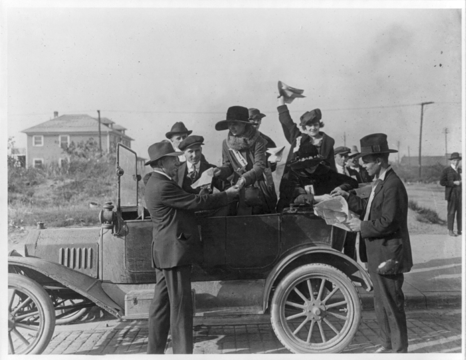 Title: Girl steel workers [in automobile] on picket duty on steel mill property Abstract/medium: 1 photographic print.